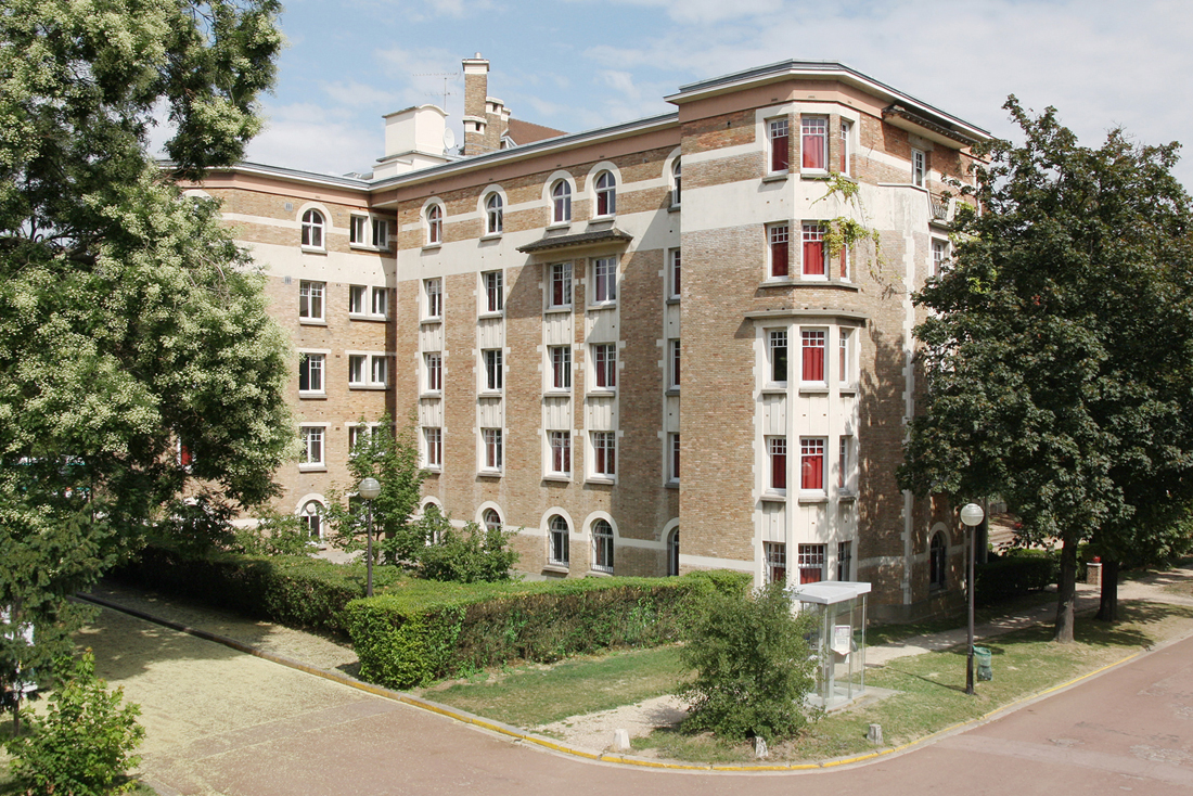 Fondation des Etats-Unis in Paris